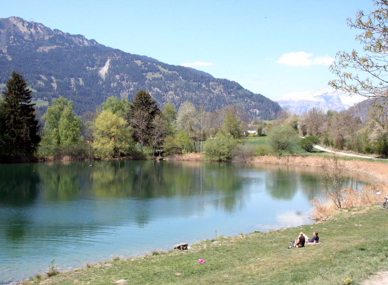 Canovasee, April 2007